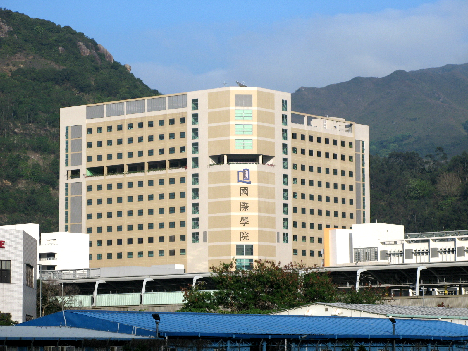 香港浸會大學「石門校園」HK Baptist University Shek Mun Campus